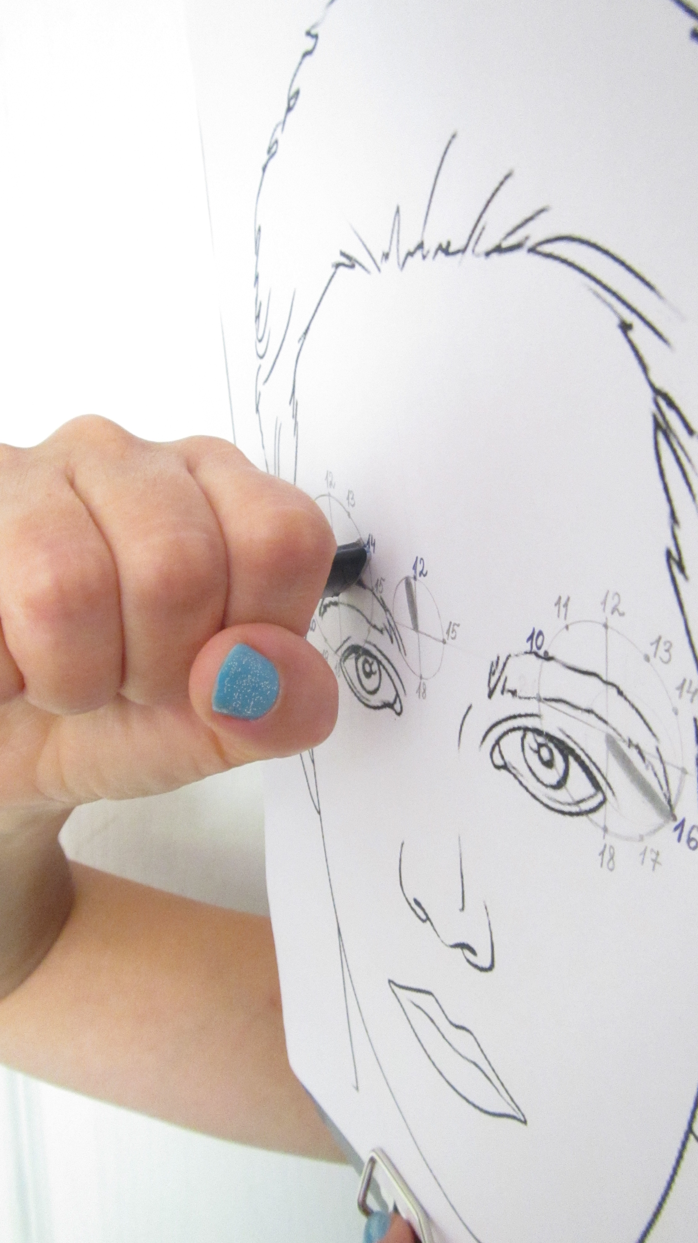 Над правой бровью близко